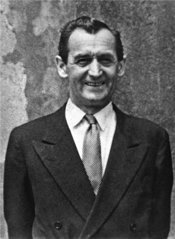 Saša Machov, Czech choreographer and dancer